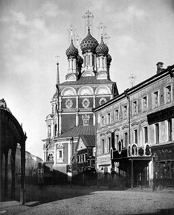 St Nicholas Church on the Ilyinka (1680-89), informally known as the Great Cross, is a landmark in the history of Russian architecture. Photo was taken in 1882; the church was blown up in 1933.